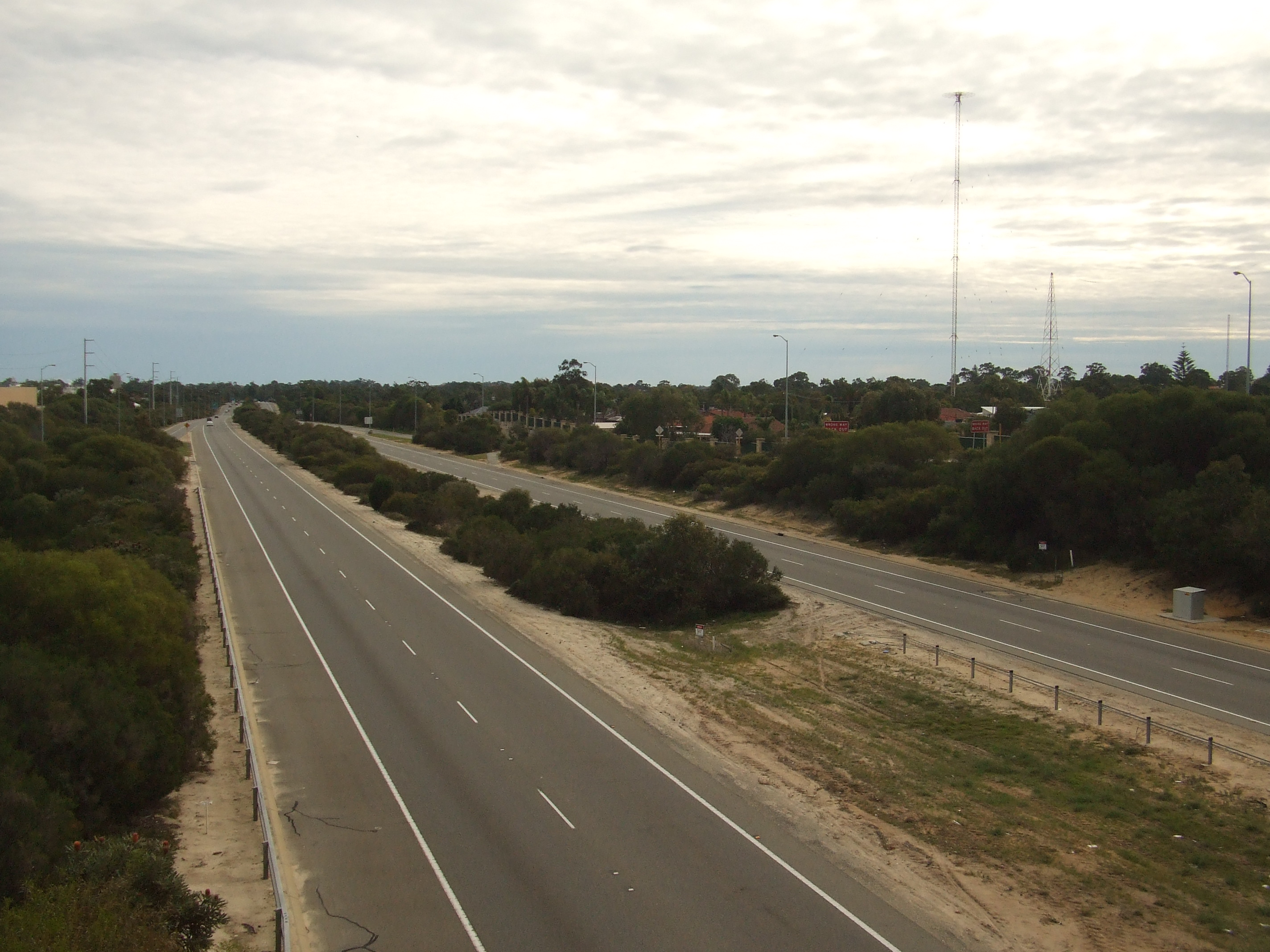 View of Reid Highway from the Wanneroo Road overpass, facing west, in Westminster, Western Australia. The ABC radio tower in nearby Hamersley can be seen to the right.